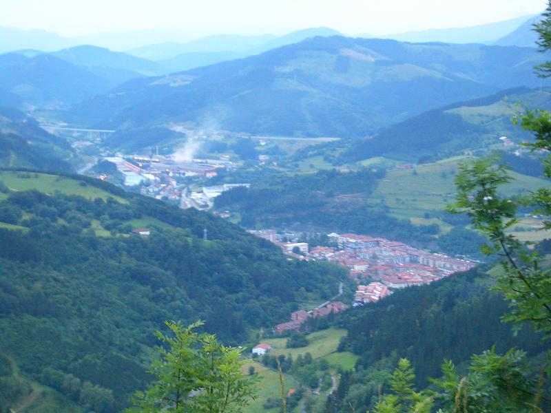 The city of Bergara seen from the hills north-east of town (form the overhill road to Azkoitia)